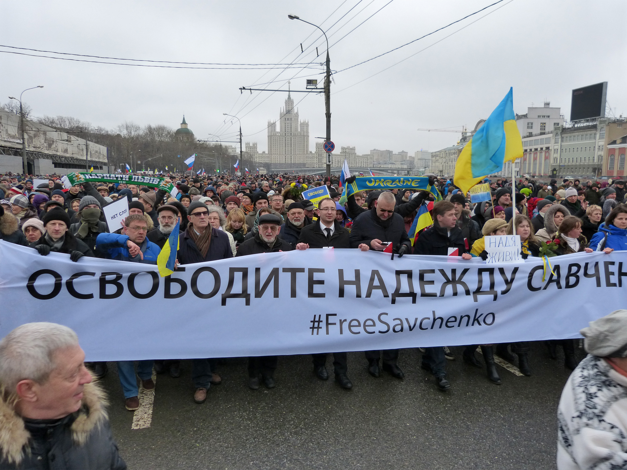 March in memory of Boris Nemtsov in Moscow (2015-03-01).